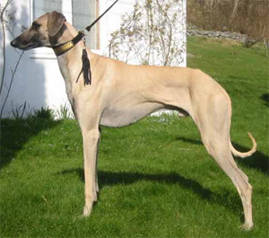 Sloughi, sand with black mask